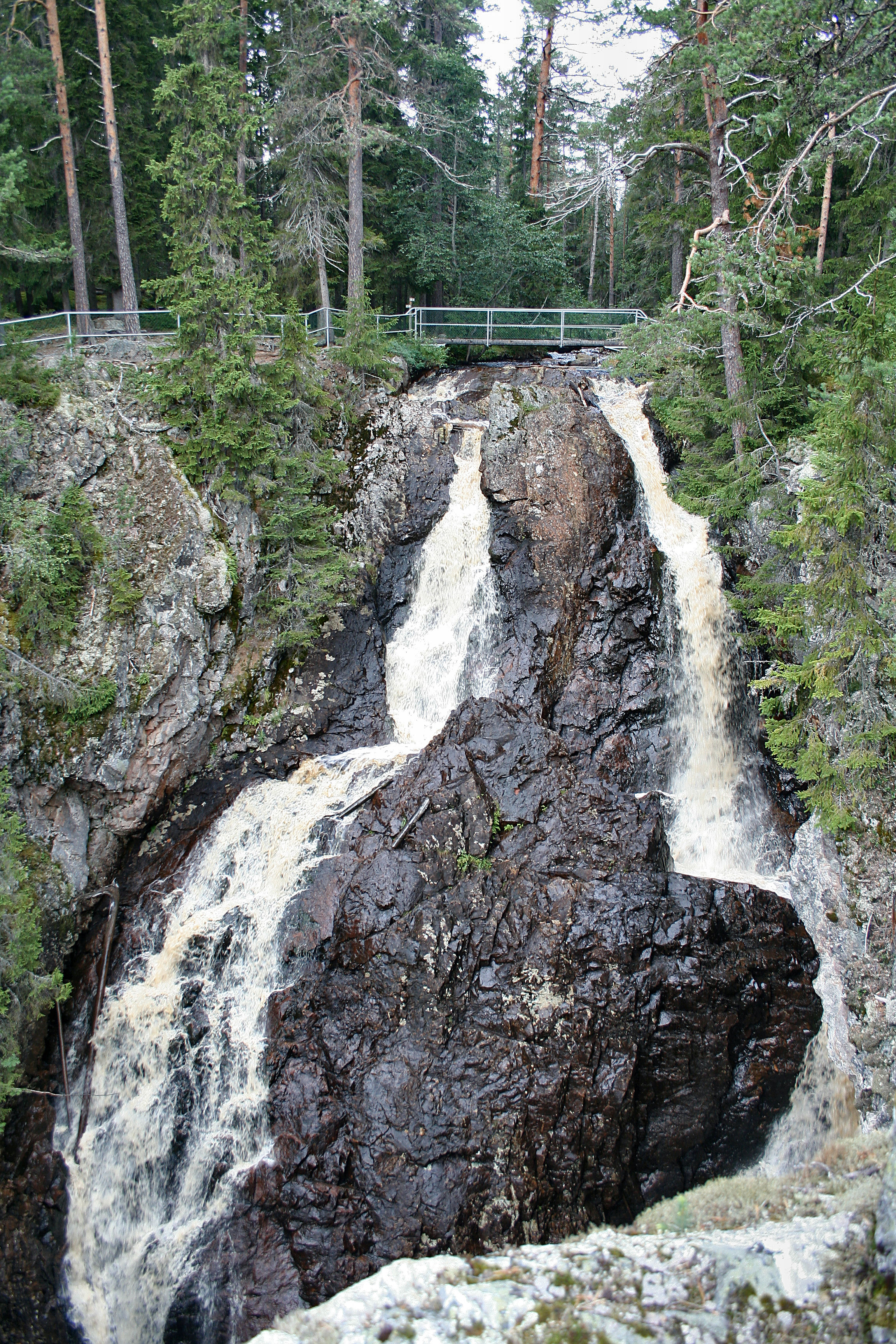 Upper part of the Styggforsen waterfall near Rättvik in Sweden